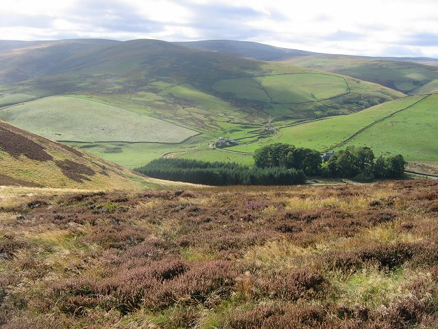 Garvald. Farm in the Moorfoot Hills. View westward from Longshaw Law a hill covered in heather used as grouse moor. Beyond is Blackhope Scar, Midlothian's highest point (651m).